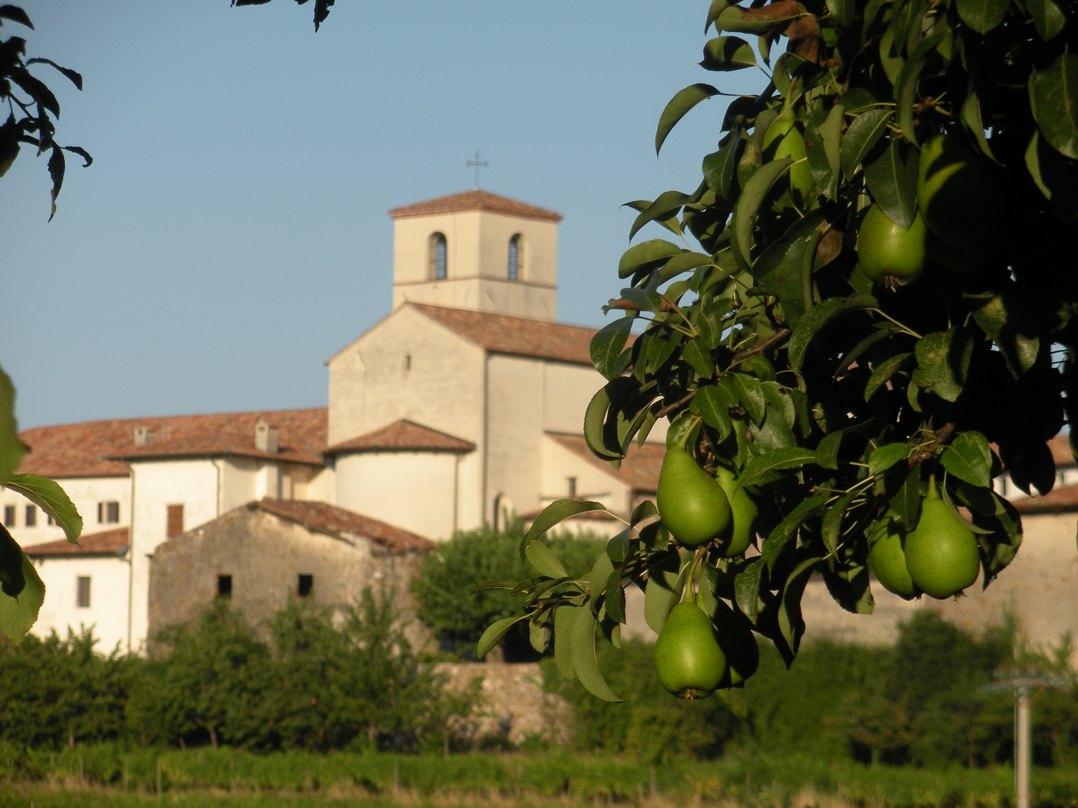 Rosazzo Abbey